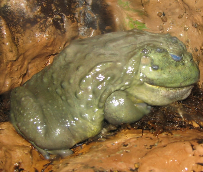 African Bullfrog - Pyxicephalus adspersus